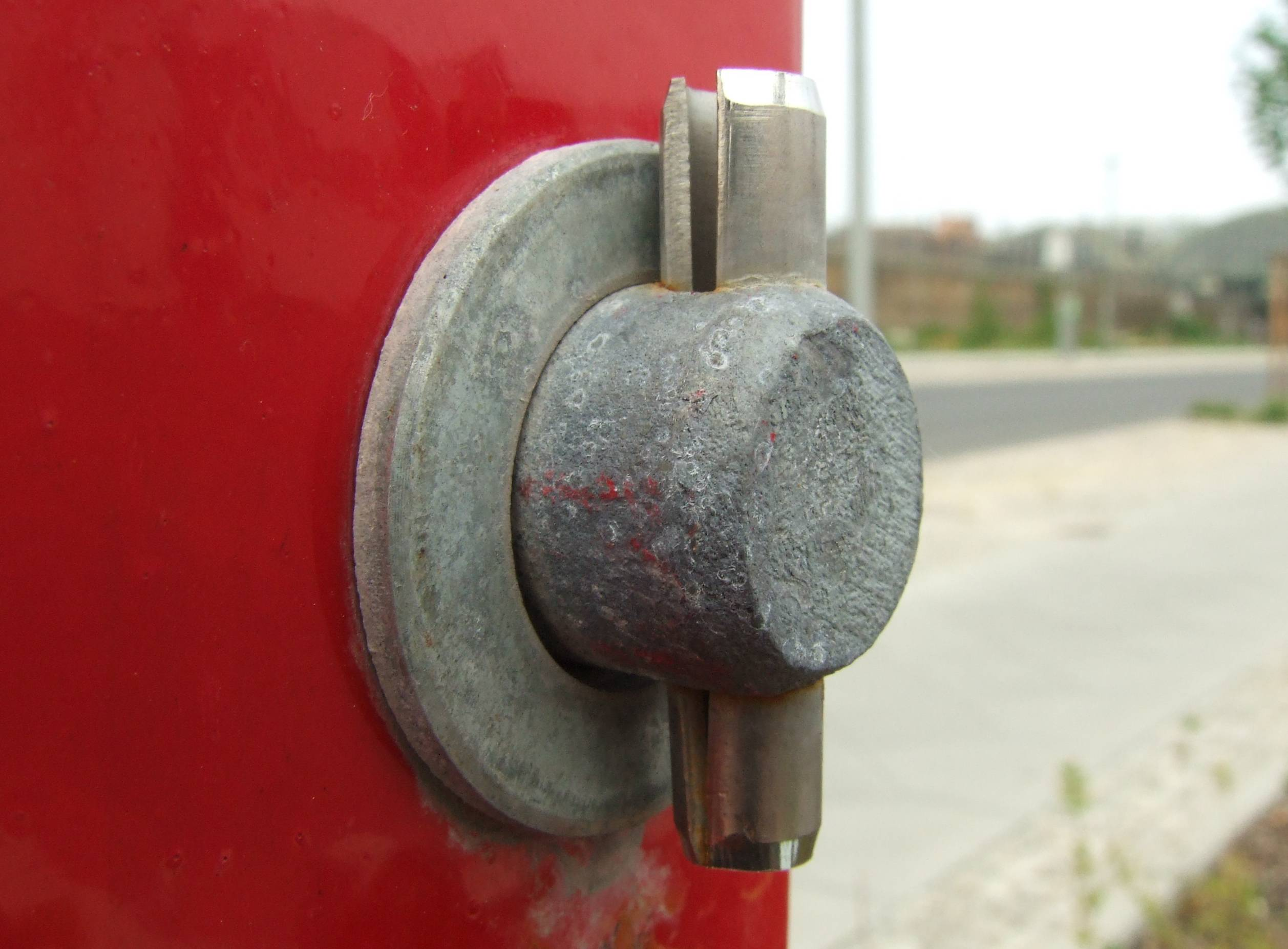 spring-type straigth pin (with washer) used as safety mechanism on a axle.